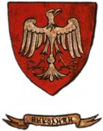 Nikolic